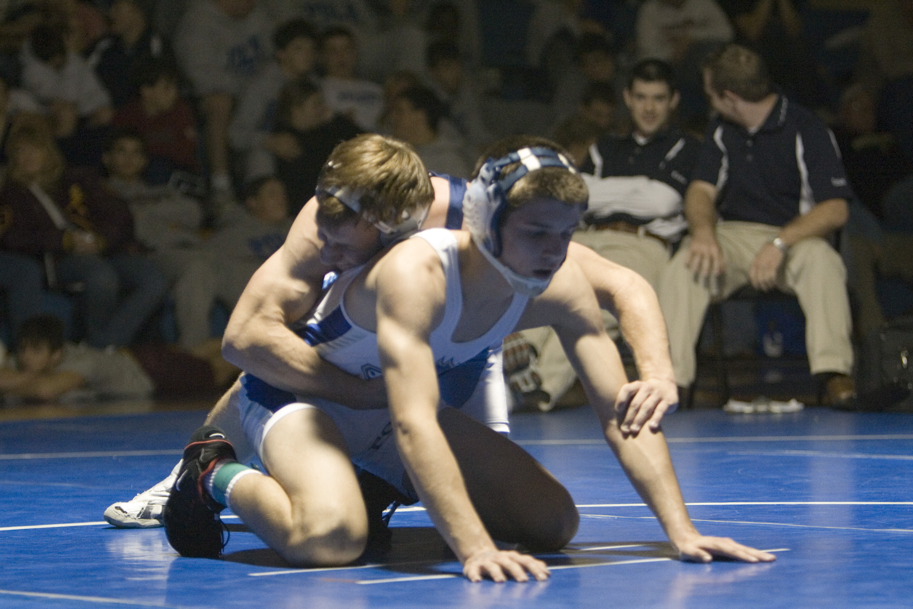 Two high school students wrestling (collegiate, scholastic, or folkstyle) in the United States. Originally uploaded by Wikiman86 on the English Wikipedia project at